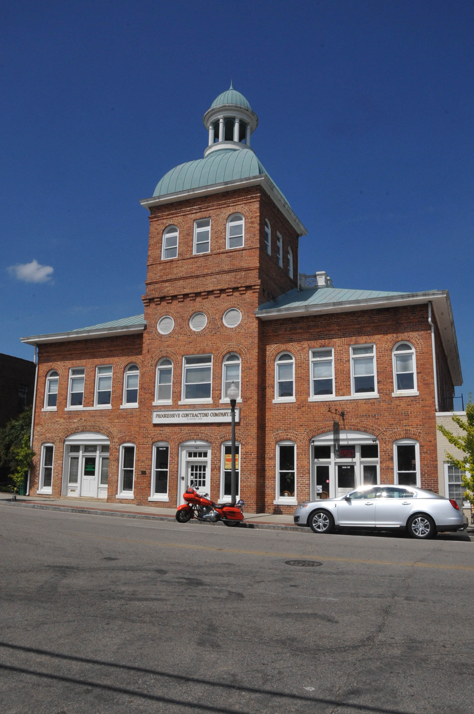 TOWN HALL - 1909